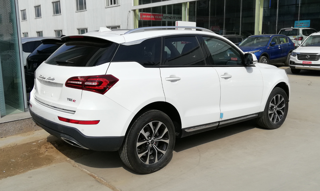 Zotye T600 Coupe photographed in Zhengzhou, Henan province, China.